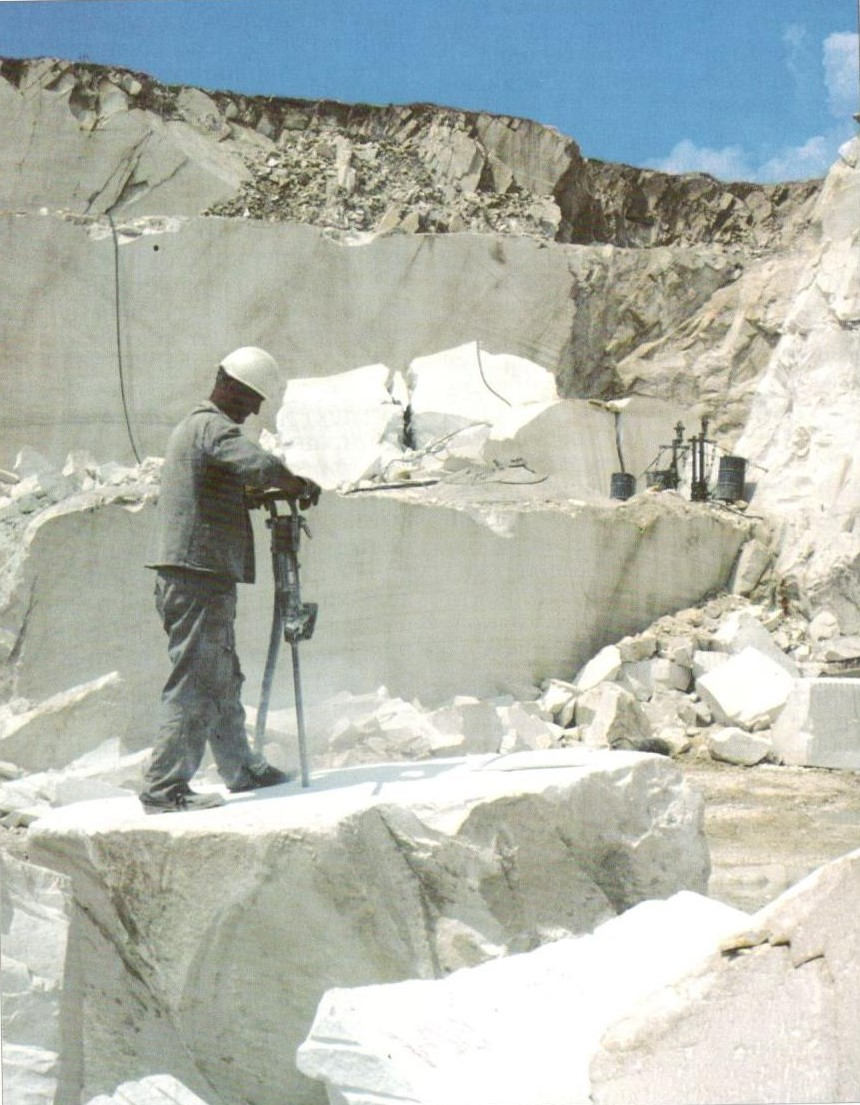 Excavation of marble in Sivec mine near Prilep, Macedonia